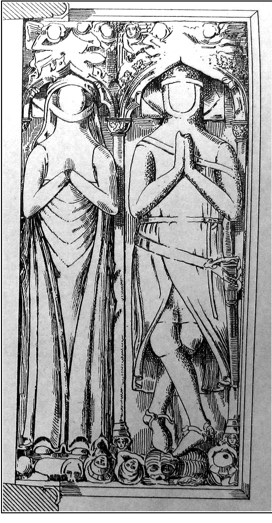 circa 1890 Drawing of stone double effigy in St Andrew's parish church, Halstead, believed to represent John de Bourchier (died 1329), Judge of the Common Pleas, of Stanstead Hall, Halstead and his wife Helen of Colchester